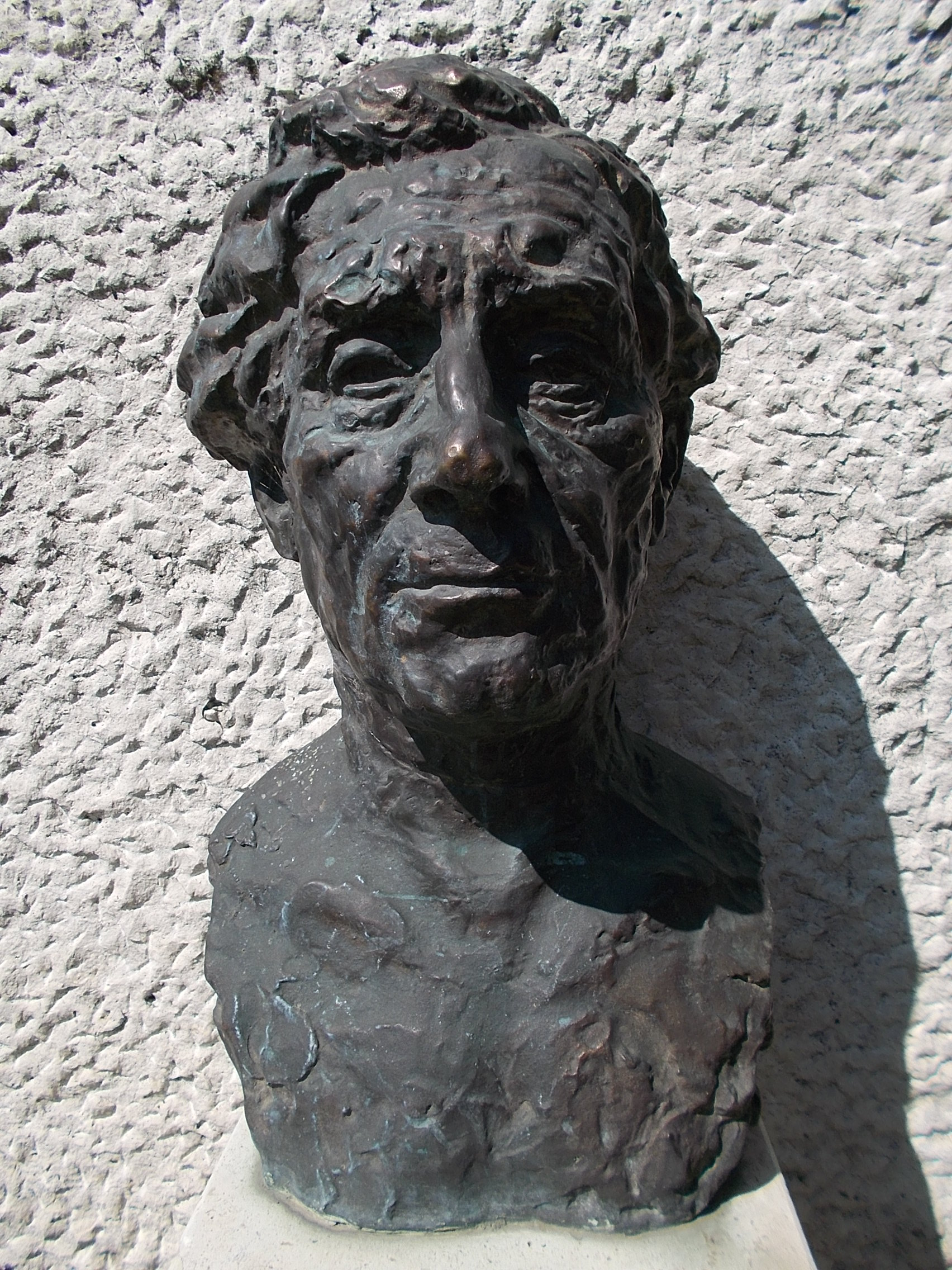 Gyula Germanus memorial by László Hűvös and György Szabó (1930 and 1986 and 2001). - Germanus Gyula park, Felhévíz quarter, Budapest District II, Hungary.